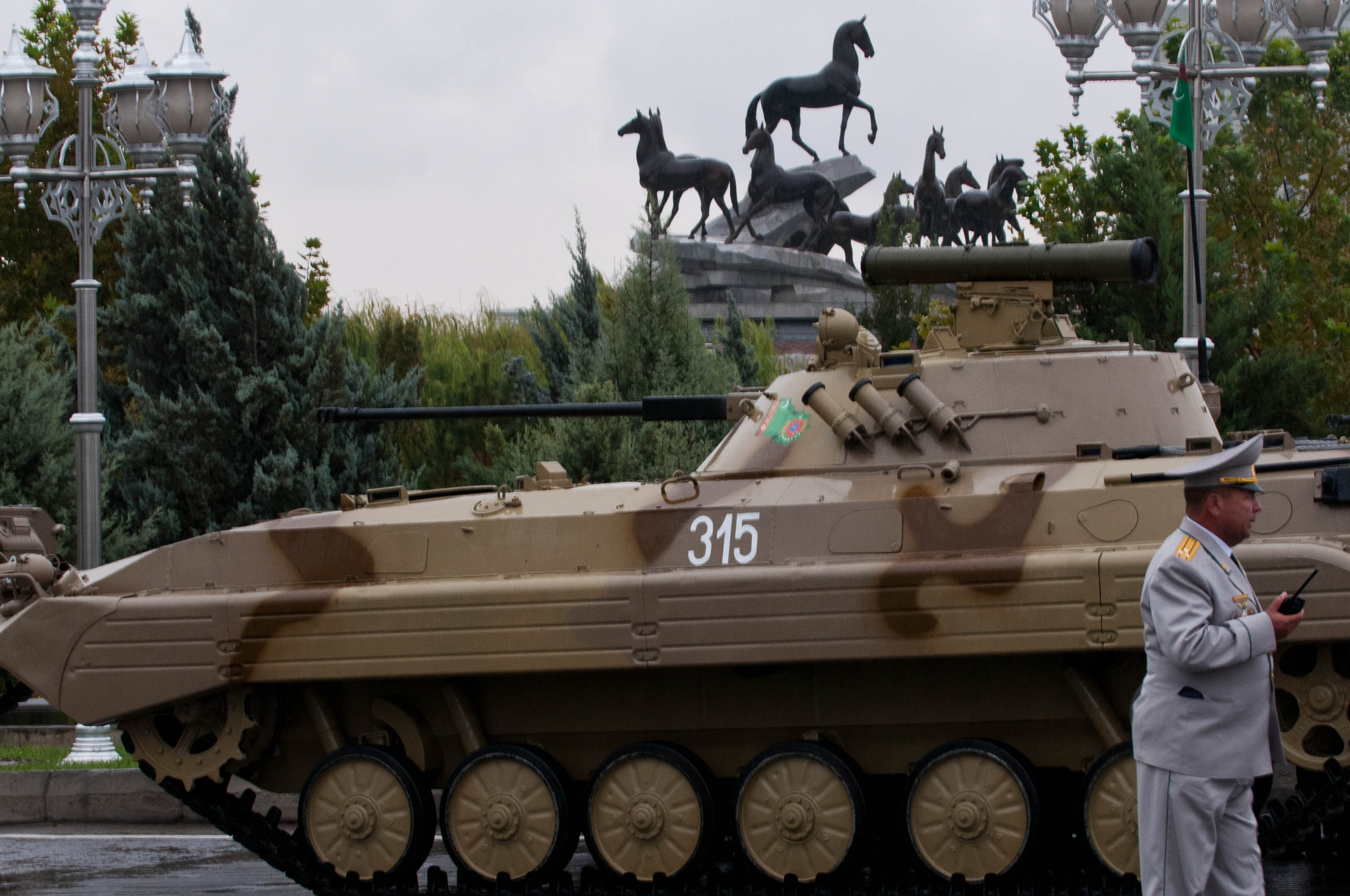 Celebrating the 20th year of independence in Turkmenistan